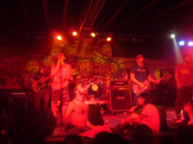 Banda Bassotti at Mamamia, Senigallia (An) for "Antifascist Jenuary"